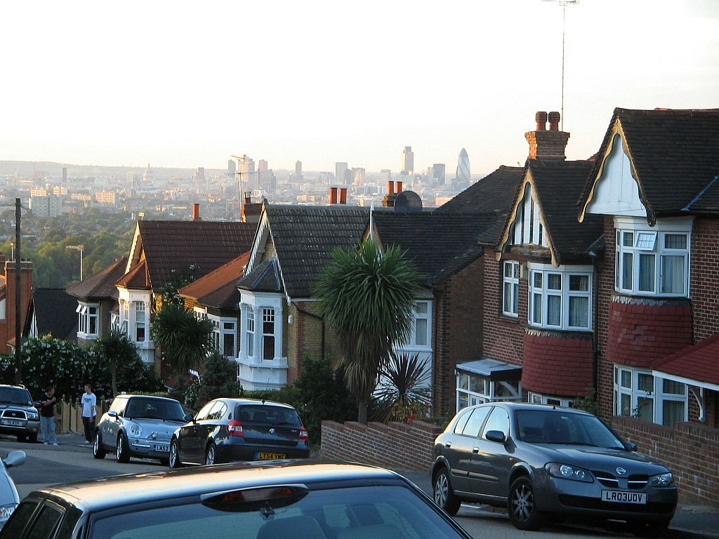 The view from Forest Hill in London, looking north. Photo taken by Will Fox in September 2005 and released to the public domain.